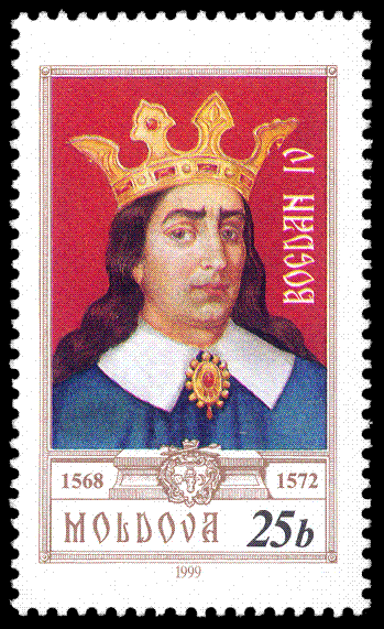 Stamp of Moldova